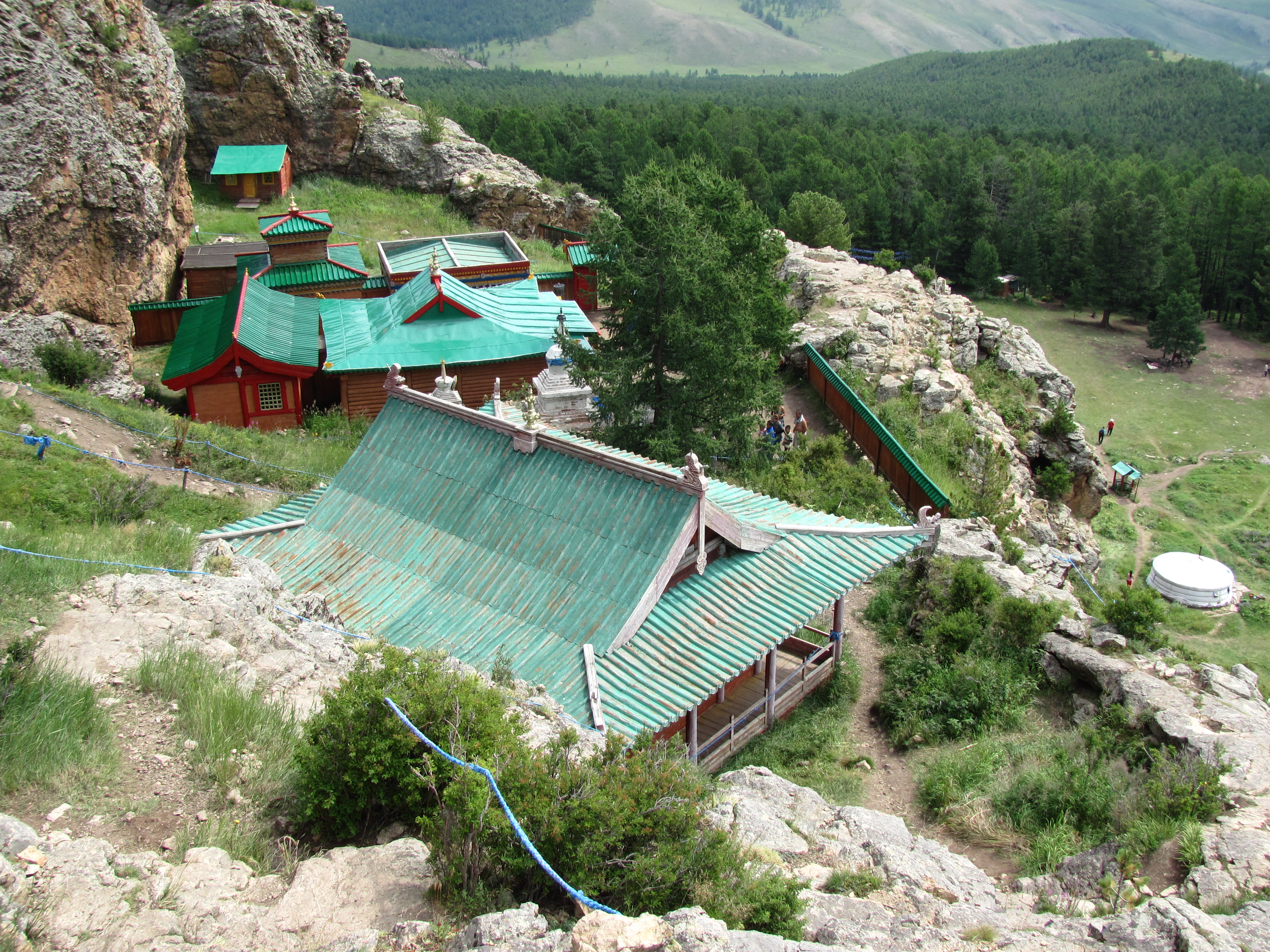 Monastery Tövkhön Khiid, Orkhon Valley, Mongolia.